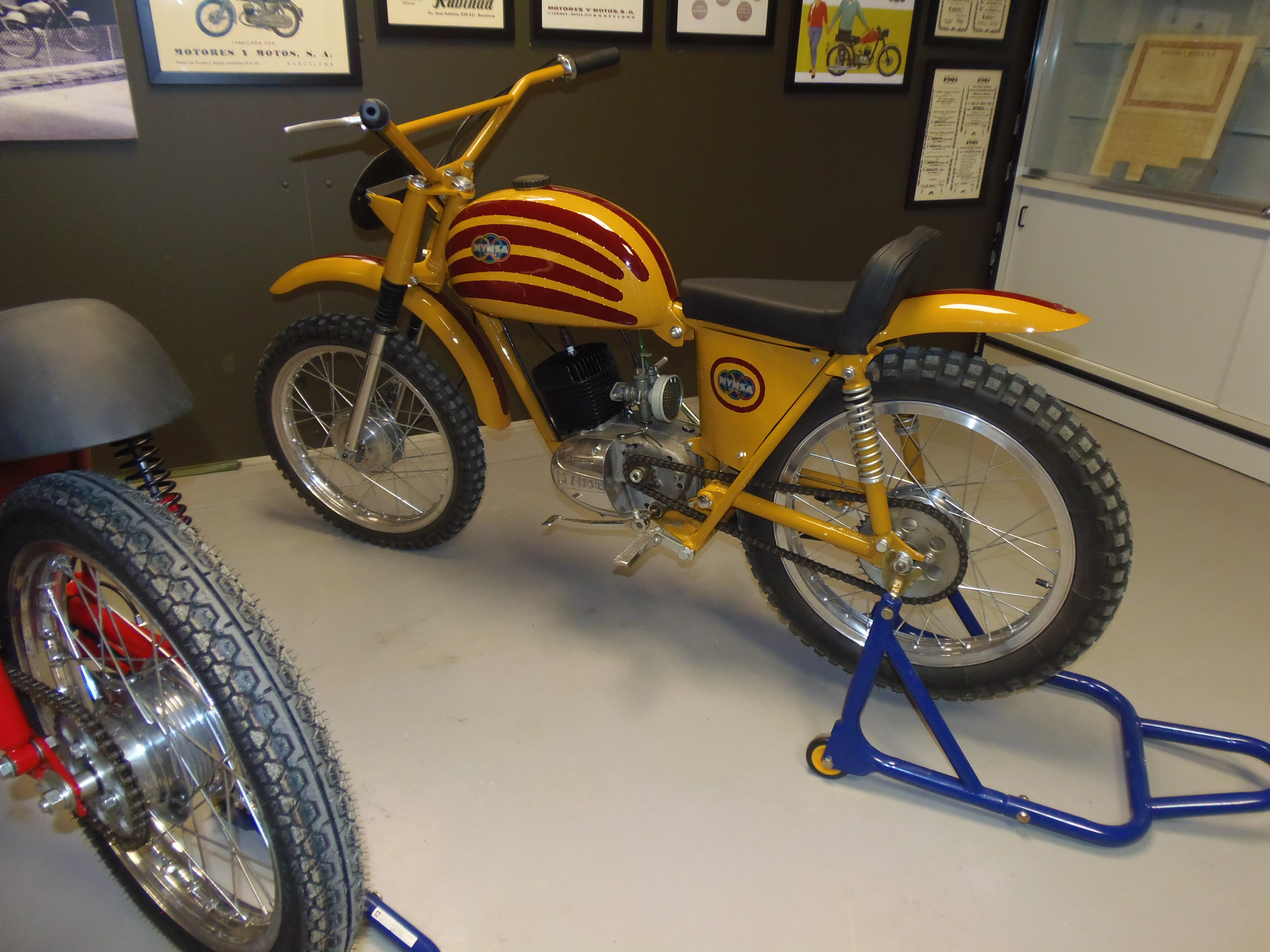 Mymsa Z-61 Cabra 74cc Cross